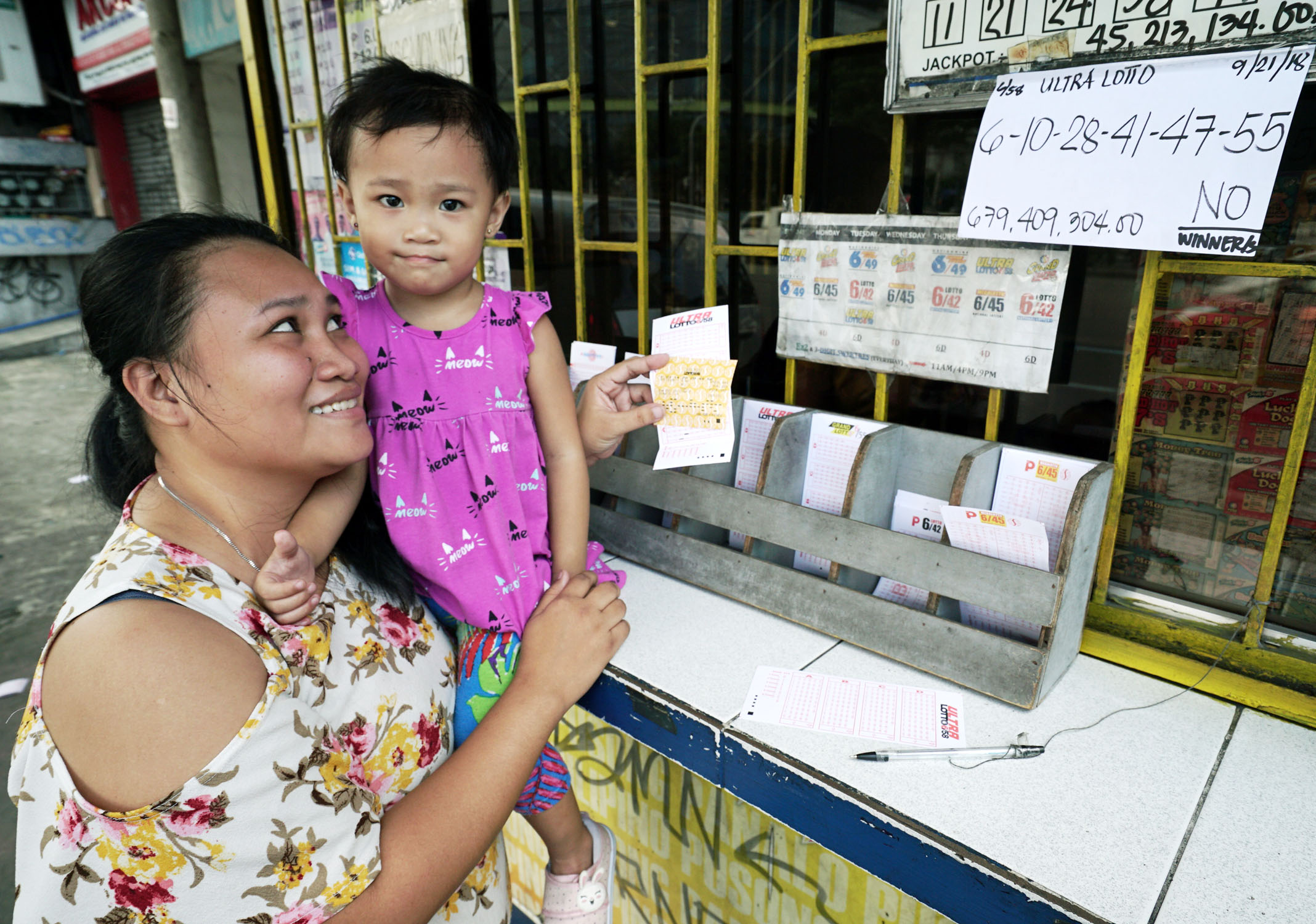 Jesamie Villacruses, 28, cuddles her daughter as she places her bet for the Ultra Lotto 6/58 draw with more than PHP679 million pot money at a lotto outlet along Quezon Avenue in Quezon City on Saturday (Sept. 22, 2018). The biggest pot money reached PHP741.176 million plus for the 6/55 Grand Lotto draw in November 2010, which was won by a bettor from Olongapo City.